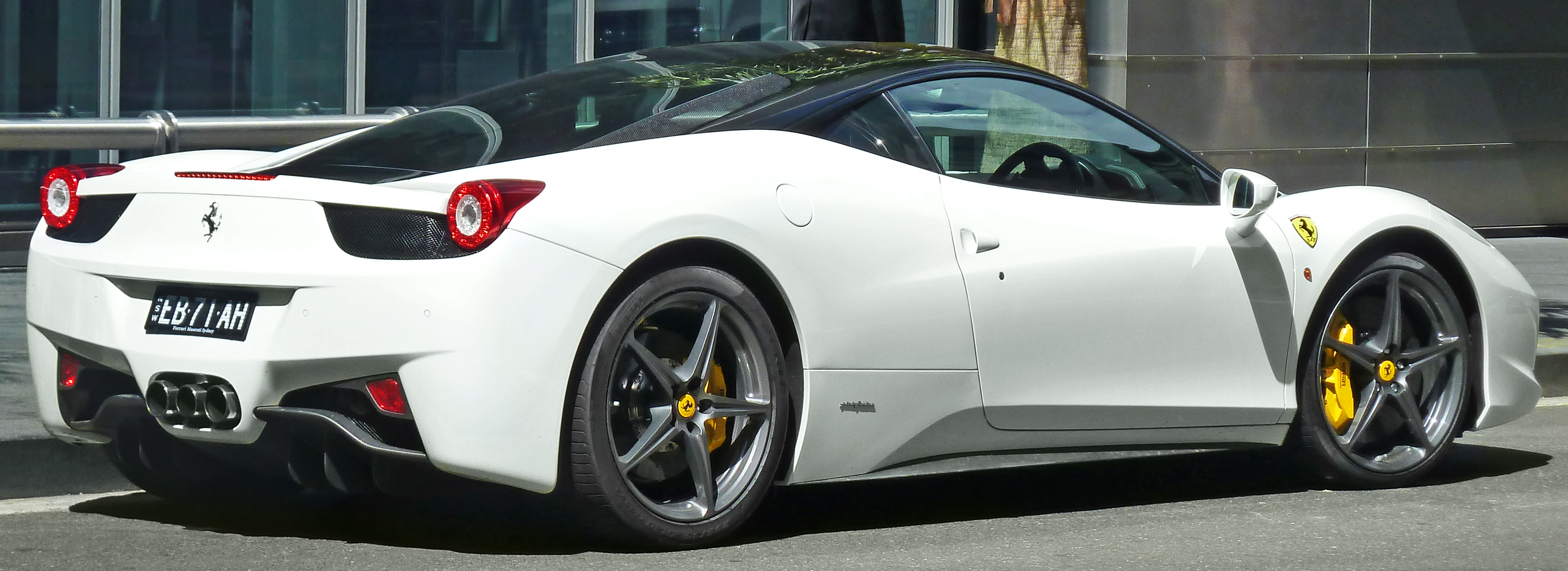 2010–2011 Ferrari 458 Italia coupe. Photographed on Phillip Street, Sydney, New South Wales, Australia.